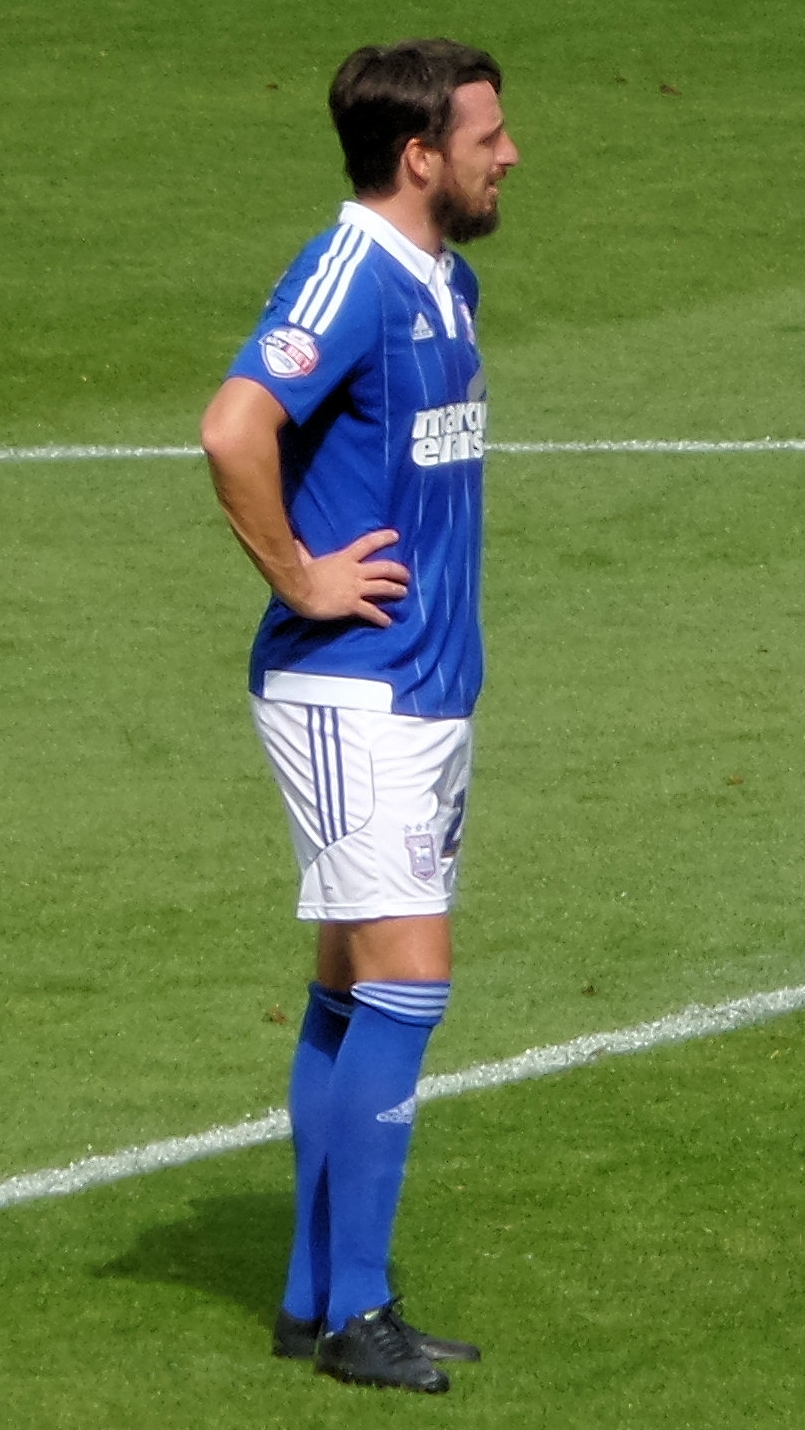 Jonathan Douglas playing for Ipswich Town against Sheffield Wednesday on 15 August 2015.